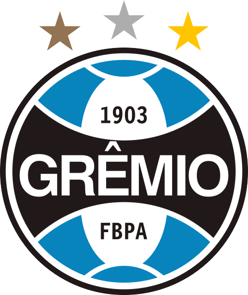 Gremio logo